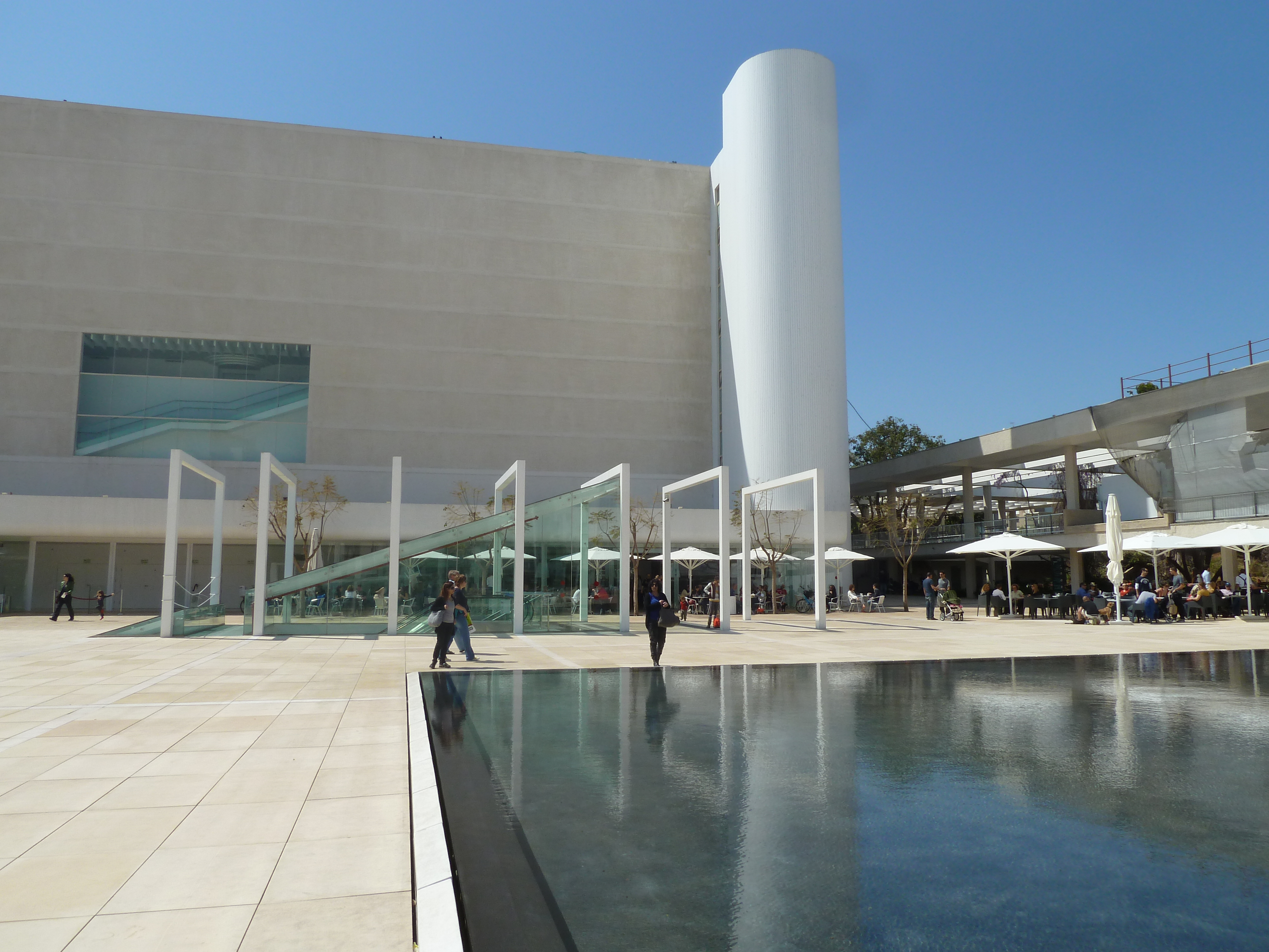 Habima Square, Tel Aviv-Yaffo